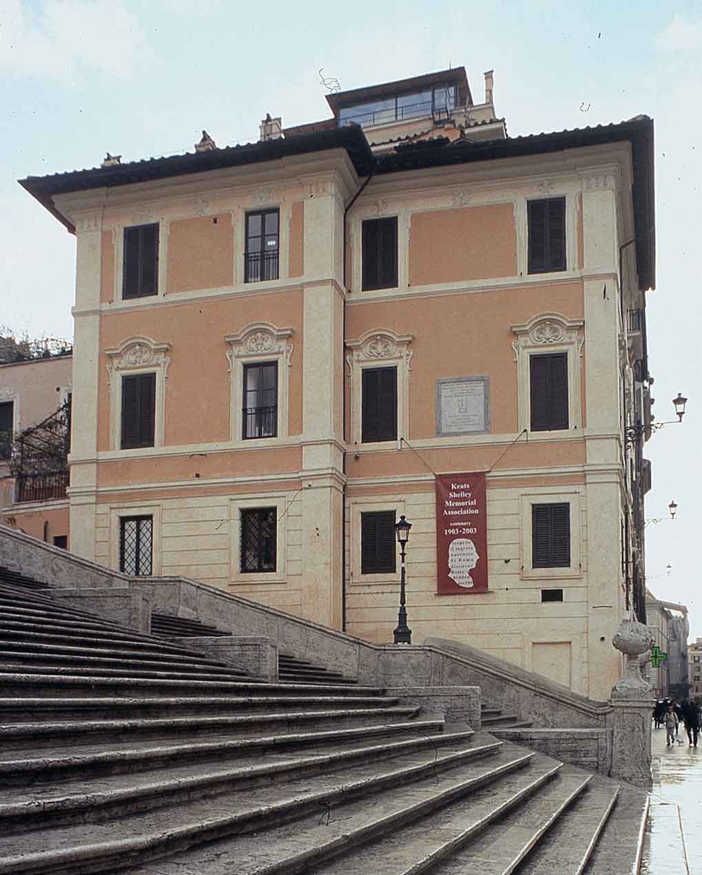 View of the Keats-Shelley House from the Spanish Steps.